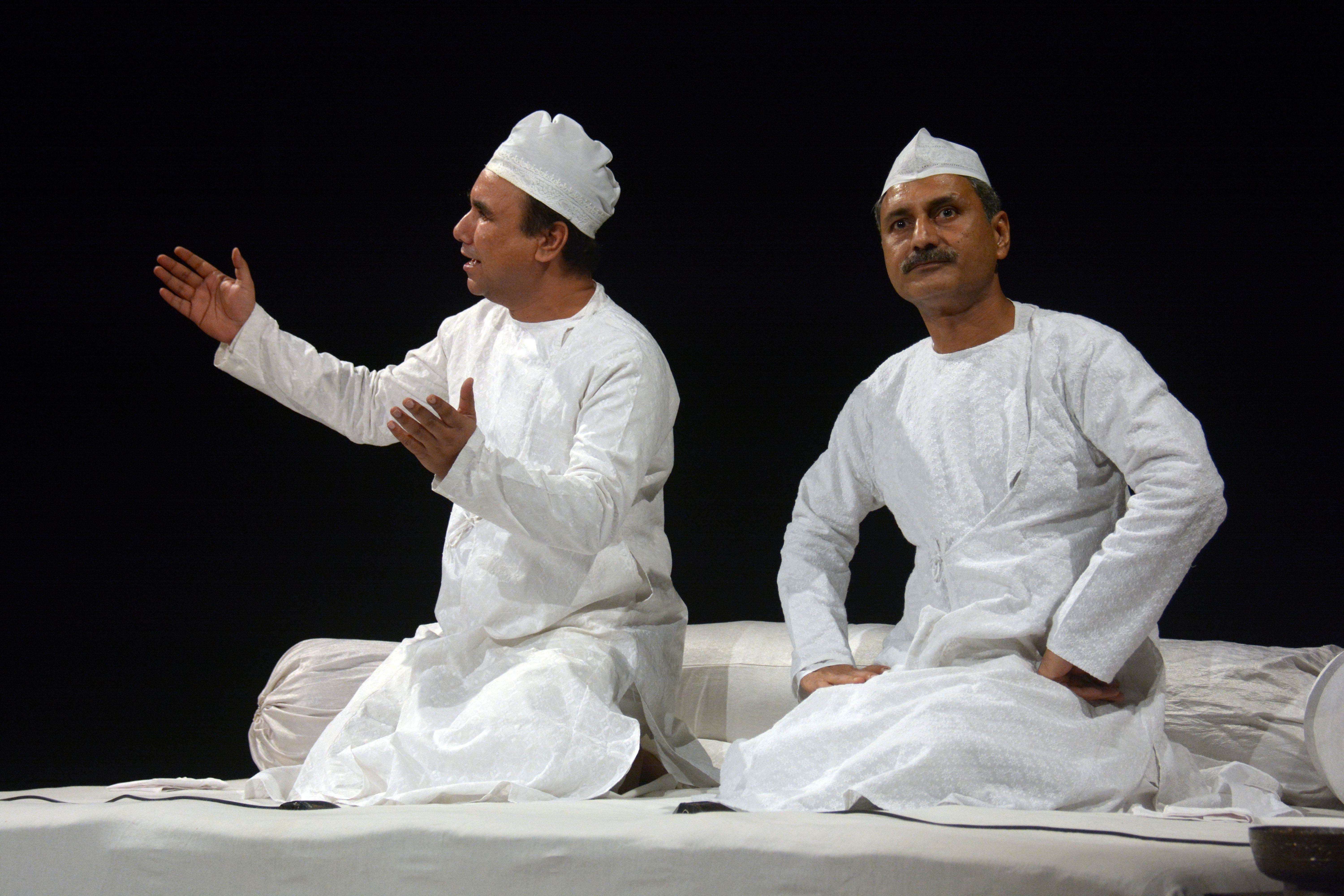 Mr Shamsur Rahman Faruqi helped revive the traditional art form of dastangoi